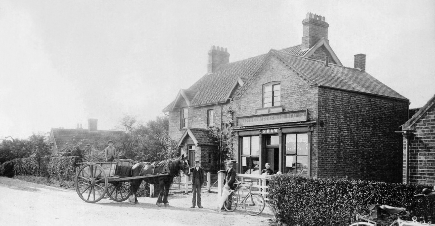 Keal Cotes general store and post office - pre WWI. Includes part of a Werner 230 cc motor bicycle (manufacture date 1904-08). The store probably ran a carrier service with the horse and cart shown to nearest town.